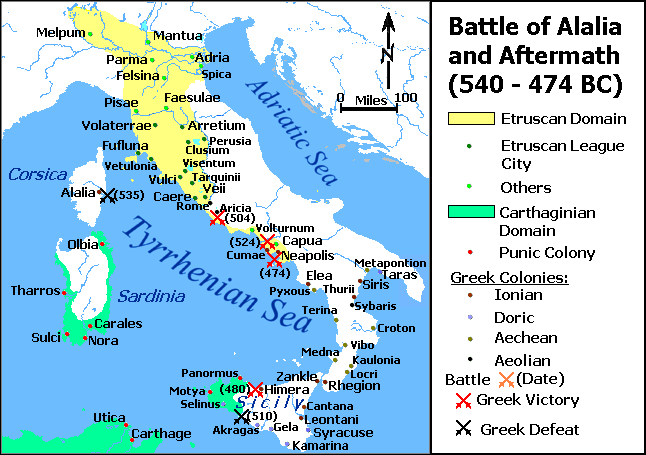 A map showing the approximate extent of Carthaginian and Etruscan domains and locations of major Greek, Etruscan and Punic colonies during the Battle of Alalia. The dates on the map are an approximation based on the sources I had.